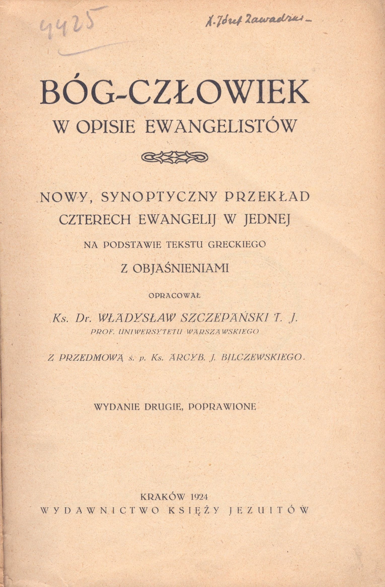 Title page for "Bóg-Człowiek" by Władysław Szczepański (1924)